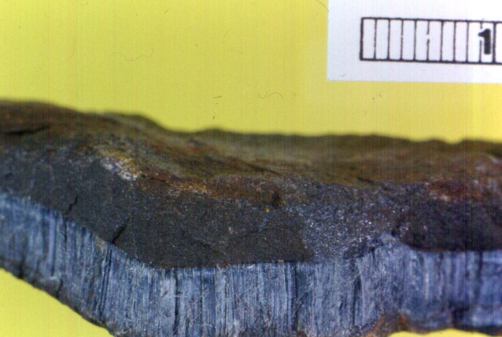 Blue asbestos mineral (crocidolite) from the now closed mine at Wittenoom, Western Australia. The rule is 1 cm.